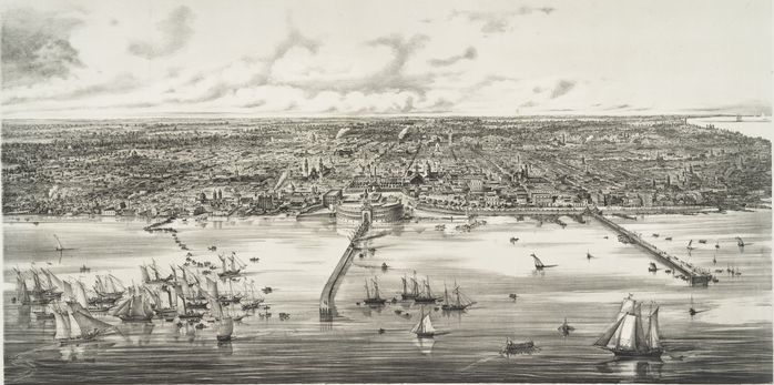 Image Title: Buenos Aires a vista de pajaro. Creator: Dulin, D. -- Lithographer Additional Name(s): Pelvilain -- Printer Of plates Dulin, D. -- Artist Depicted Date: [ca. 1860] Medium: Lithographs Specific Material Type: Prints Item Physical Description: 1 print : tinted lithograph ; 46.4 x 7.7 cm.